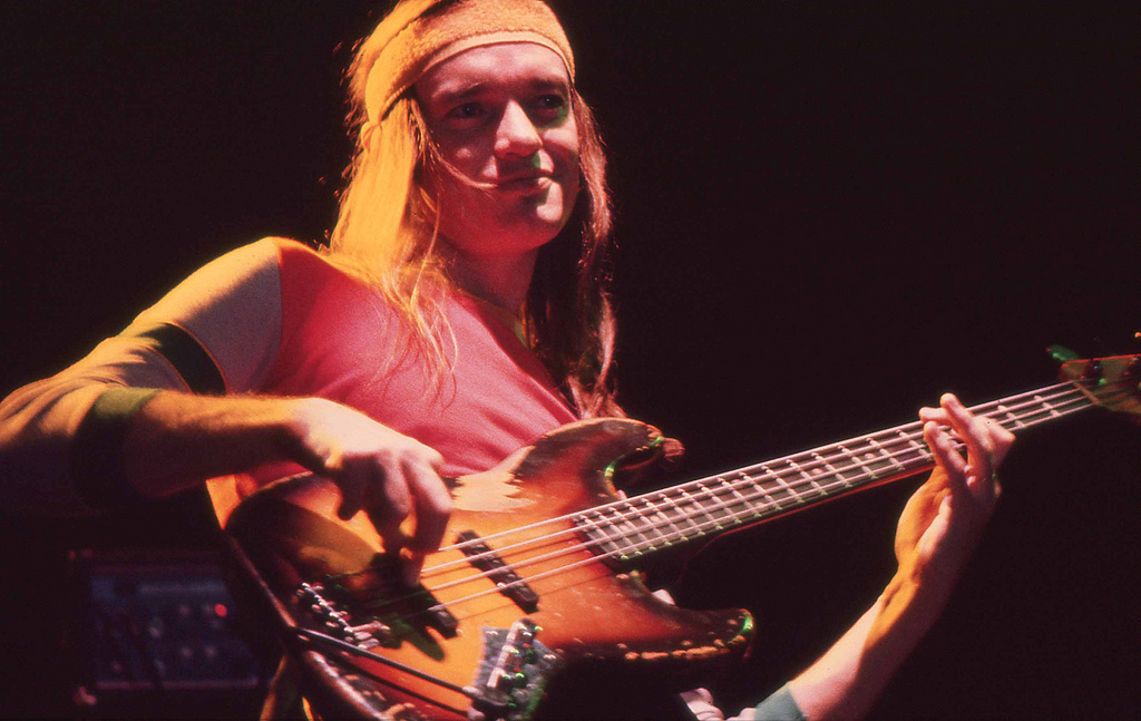 Jaco Pastorius, Amsterdam, 1980